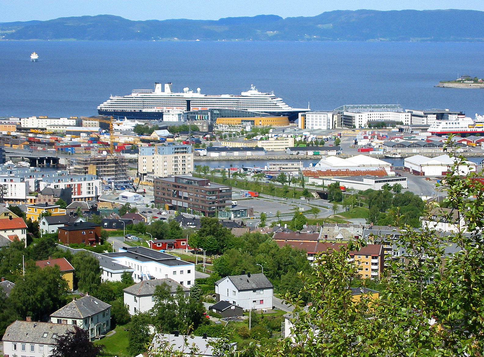 Straightened, corrected over-exposure and sharpened Image:Cruiseshiptrondheim.jpg. Original description: Cruise ship in Trondheim The body of water in front of the cruise ship is Nidelva. The channel that separates the railway station from the city starts under the bridge at the extreme left-hand side of the picture.